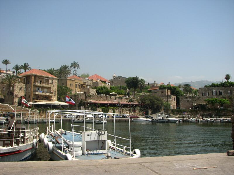 Byblos Port in Lebanon, the oldest port in the world (since 3000 B.C.) Photographed by BlingBling10